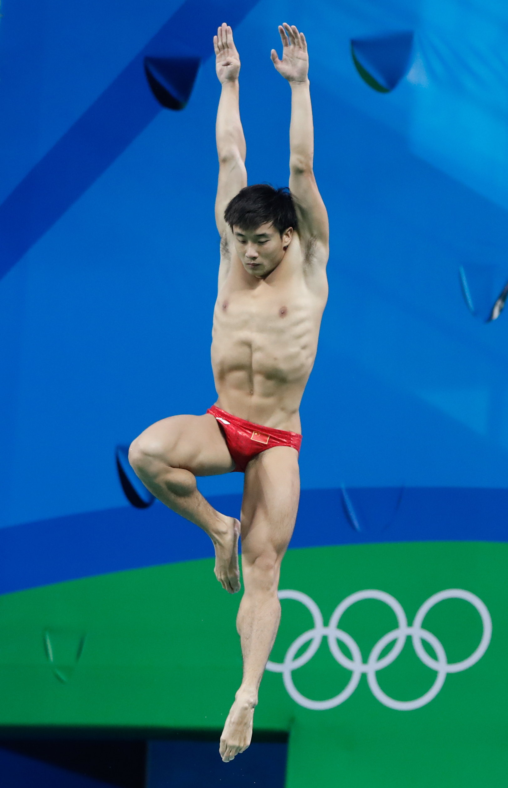 Cao Yuan at the 2016 Rio Olympics, image trimmed to focus on person